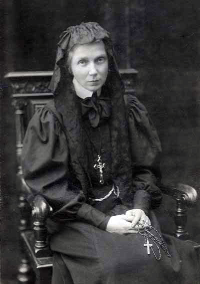 Ursula Leduhovskaya in St. Petersburg, 1907